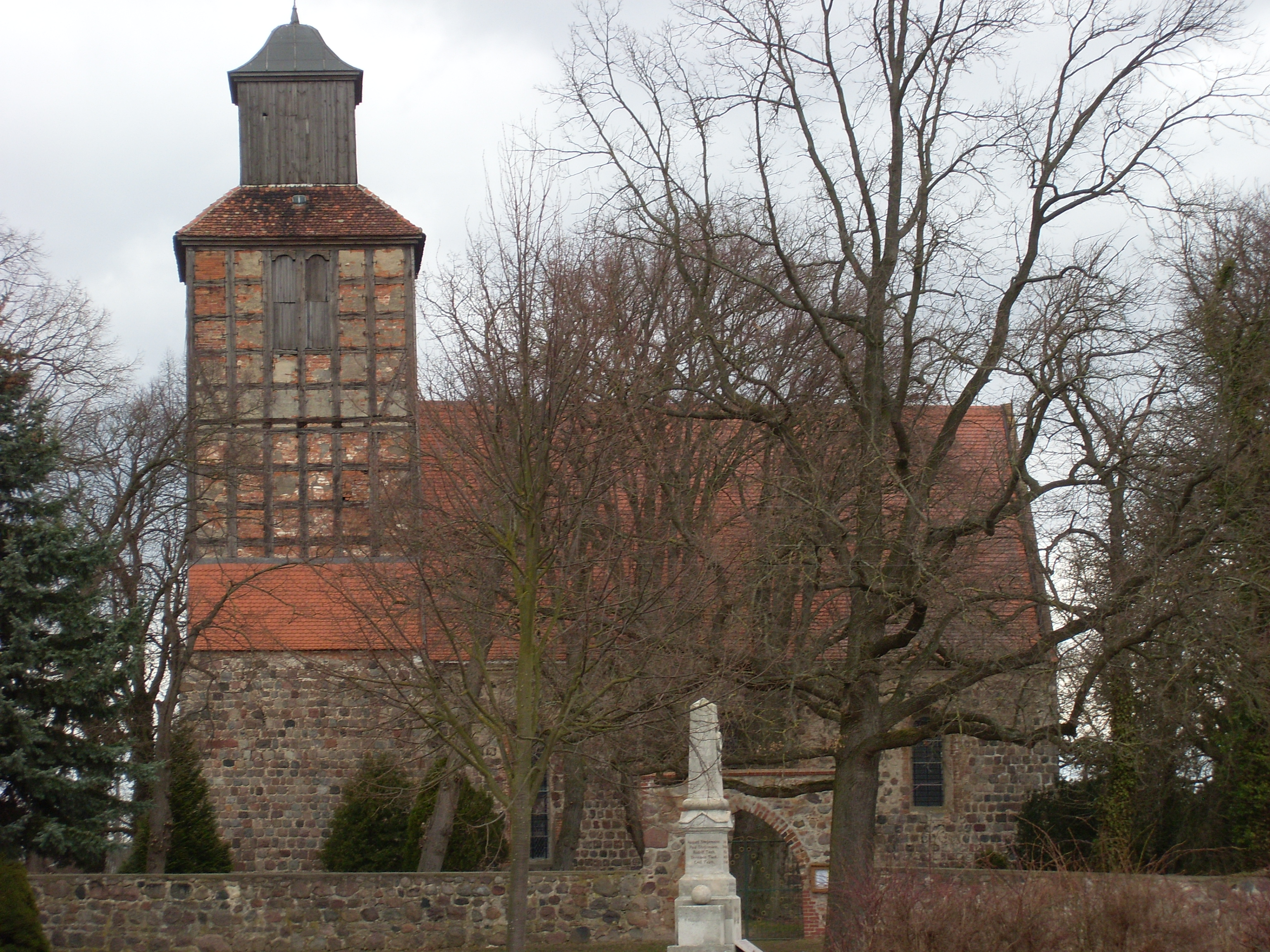 church of Schönwerder (in the foreground is the war memorial)